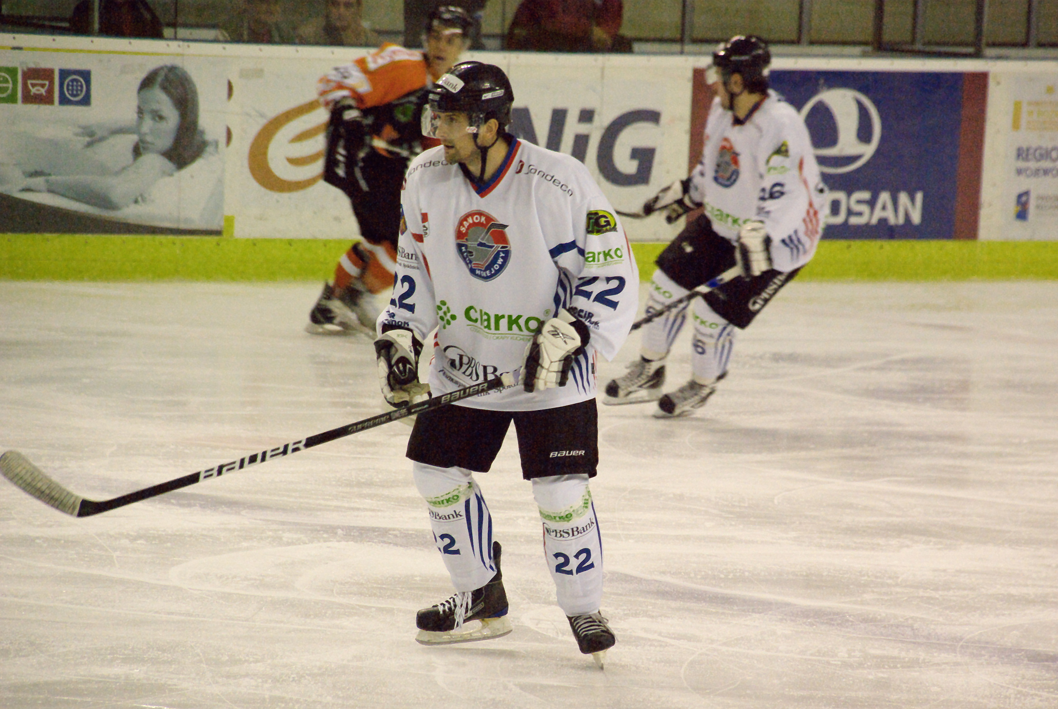 Maciej Mermer (Ciarko KH Sanok - JKH Jastrzębie), 2010, September 19